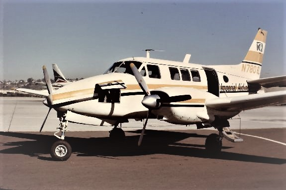 Manufacturer: Beech Designation: 65-B80 Airline: Imperial Airlines Serial Number: N7806L